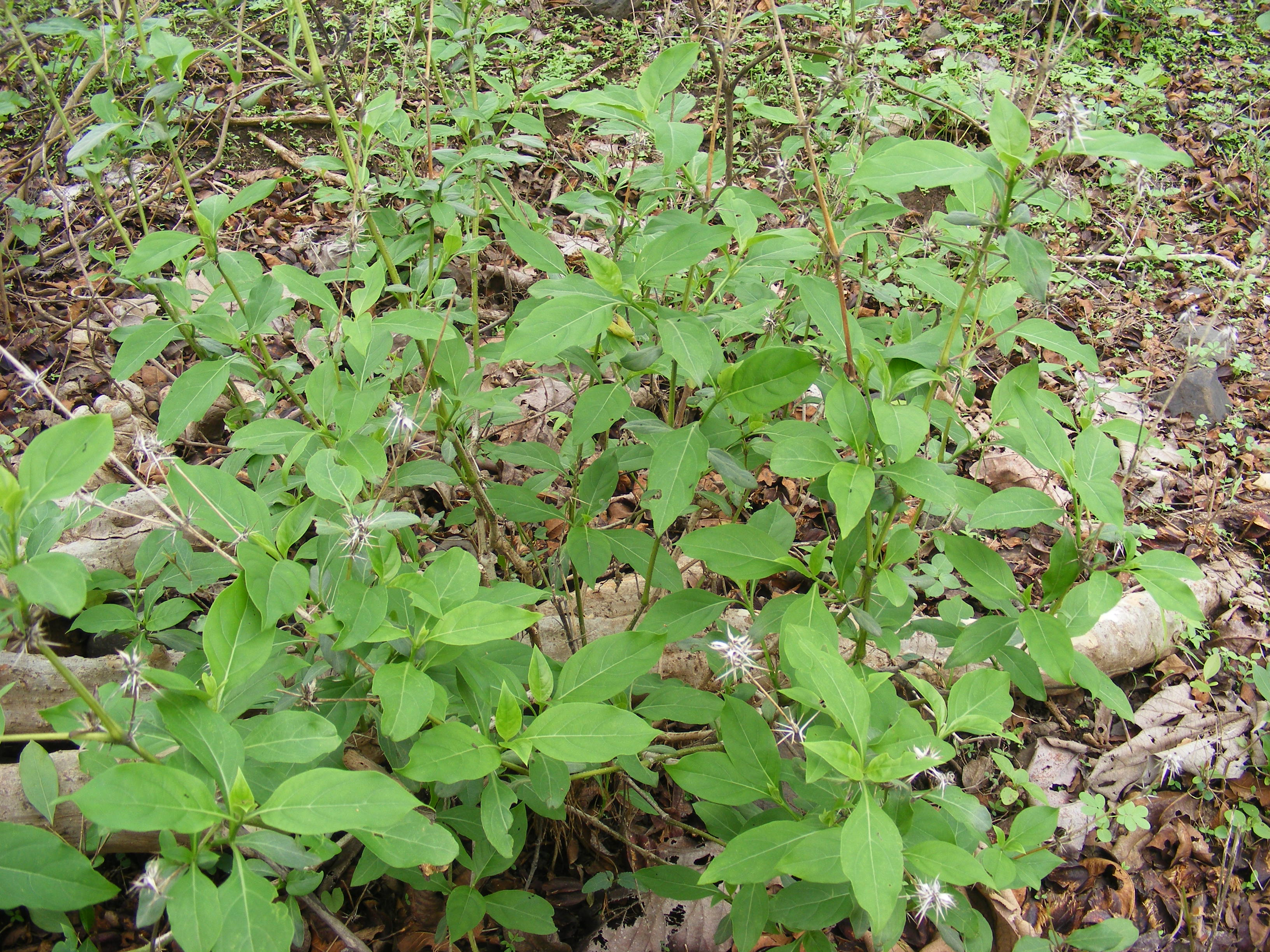 Barleria prionitis also called Kate Koranti DSCF8492 (8). Larval host plant of Grey Pansy, Peacock Pansy and Yellow Pansy LHP